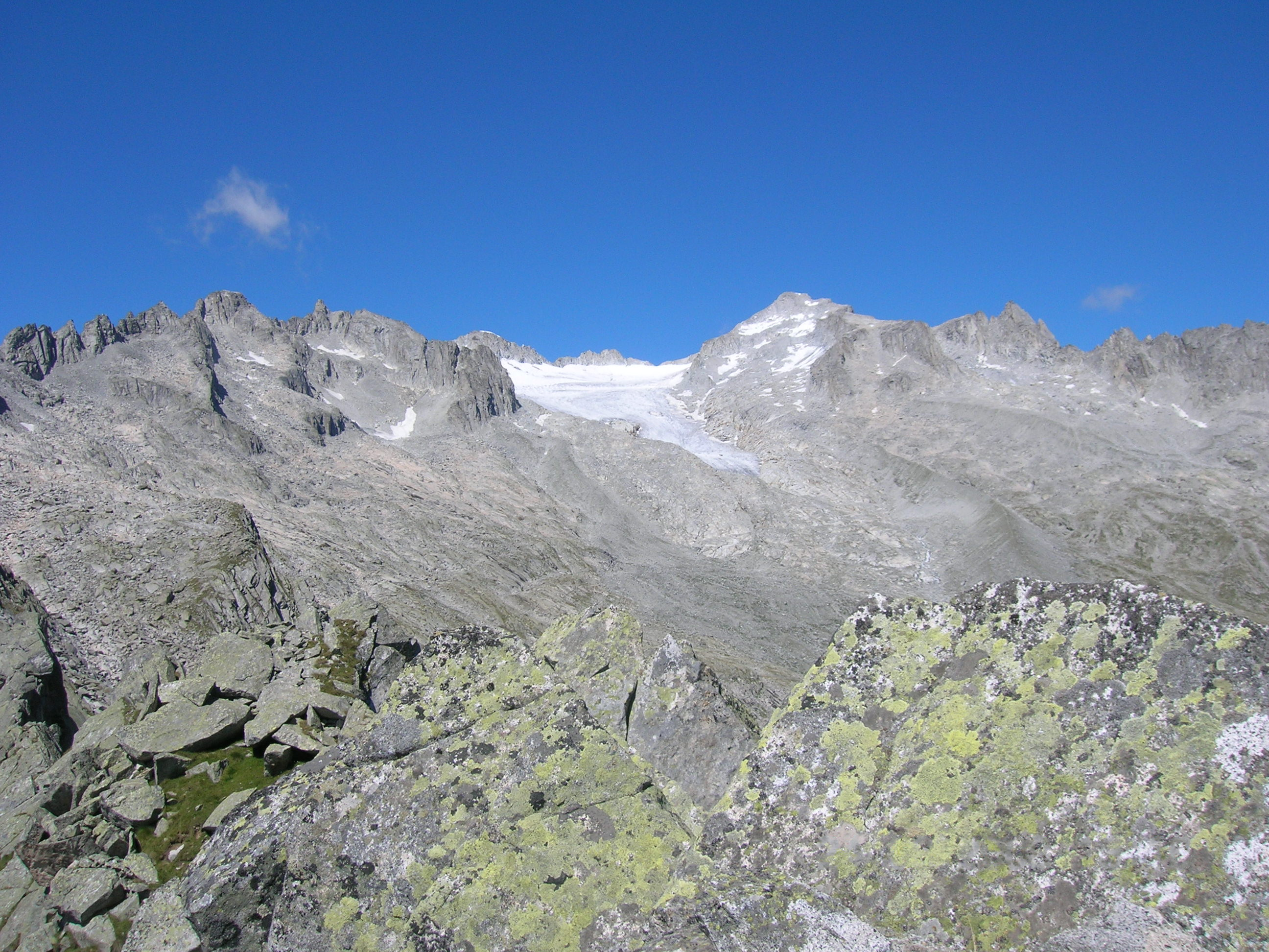 Presanella from Tamalè (val Nardis); from left to right: Cimon delle Rocchette 3289m (under the cloud), Ago di Nardis 3289m, monte Gabbiolo 3458m, Presanella 3558, monte Nero 3344m